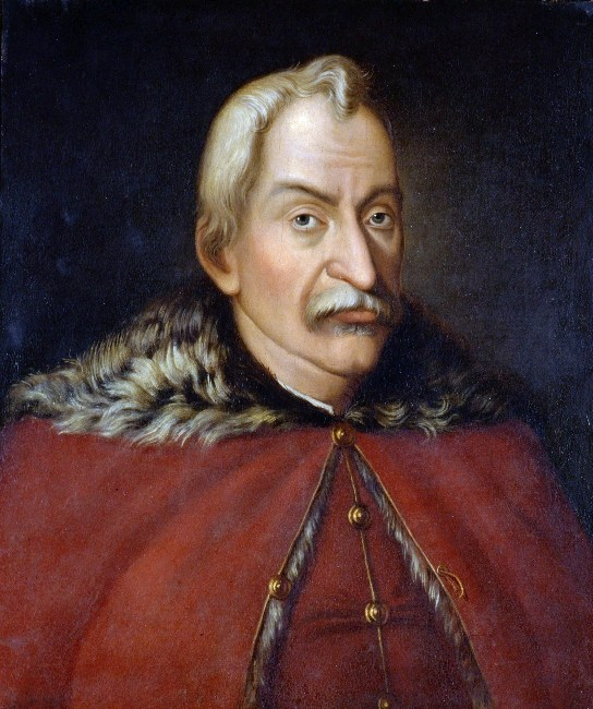 Jan Zamoyski portret, Wilanow Palace collection, XIX century